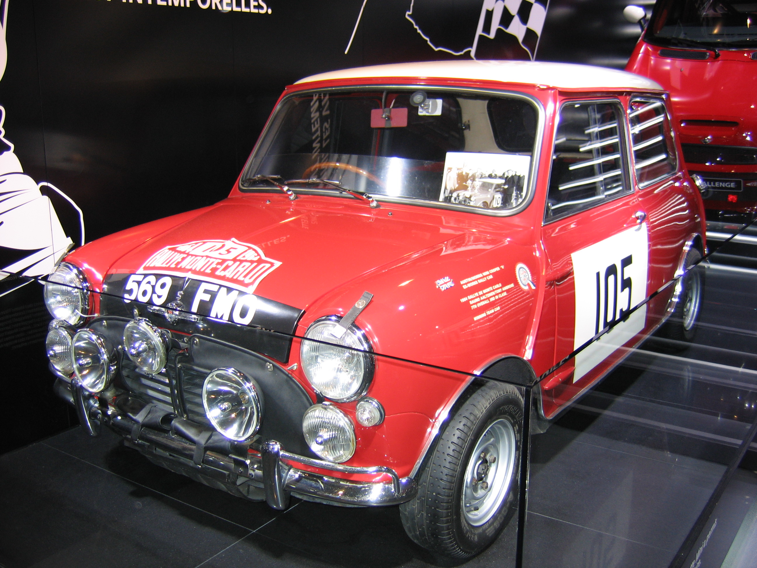 Geneva Motor Show 2005